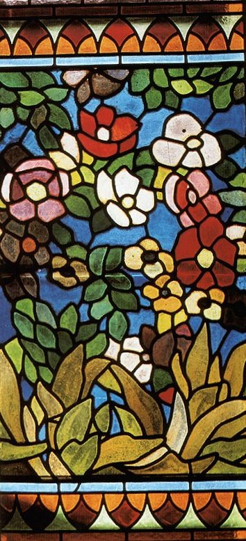 Glass window color (Cafe Japan, Budapest), Budapest Museum of Applied Arts